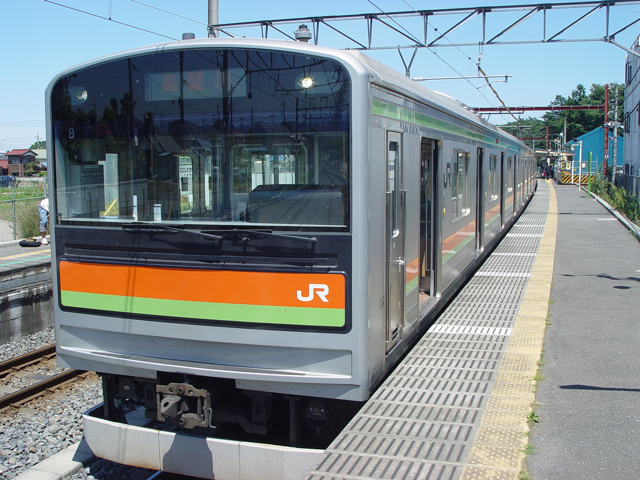 A JR East 205-3000 series EMU at Musashi-Takahagi Station on the Kawagoe Line